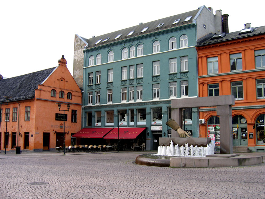 Hansken Sculpture and Theater Museum, Christiania Torv. Oslo, Norway. Canon Powershot A95, Photoshop 7